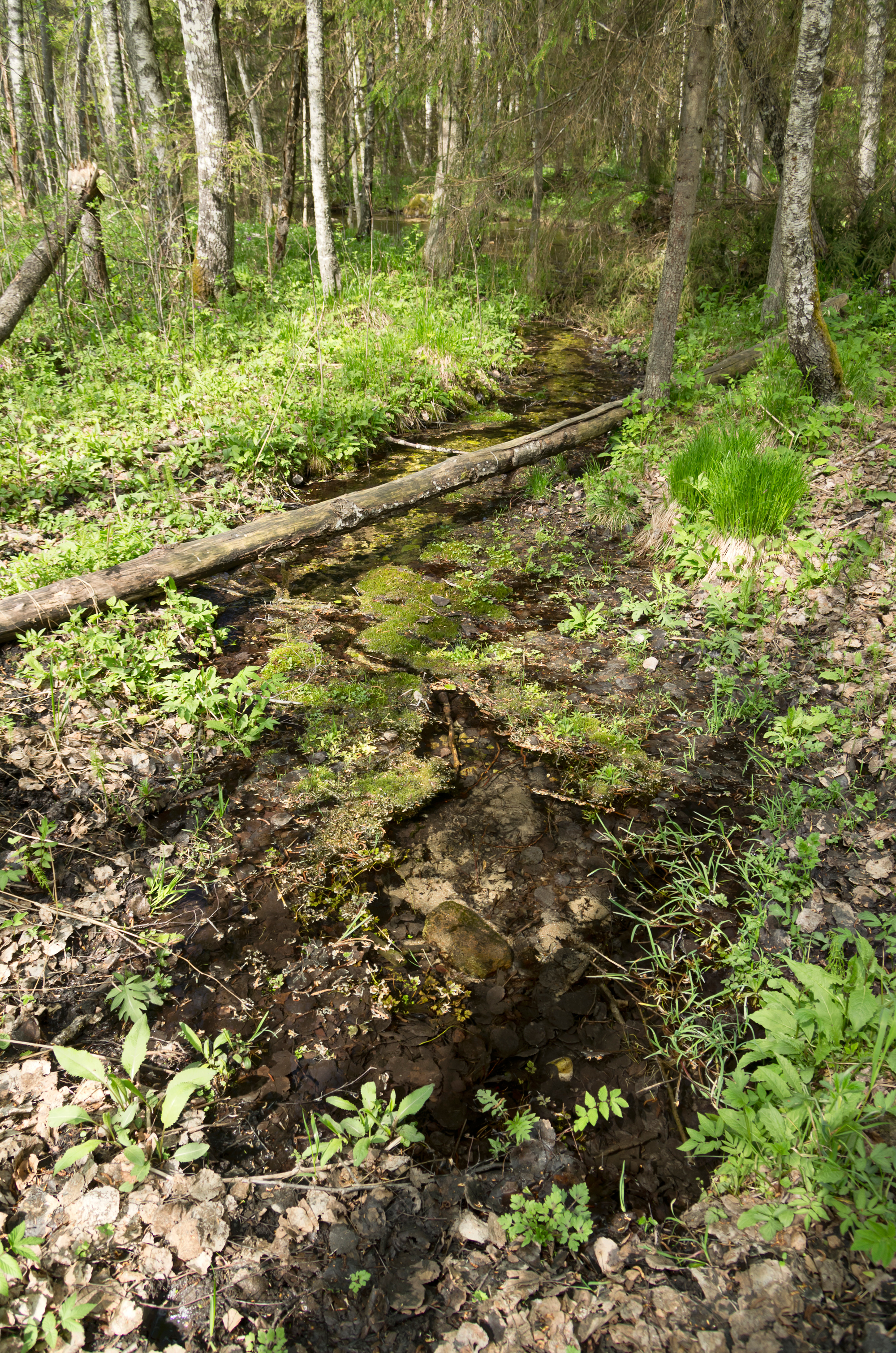 Võllingu spring, Endla Nature Reserve